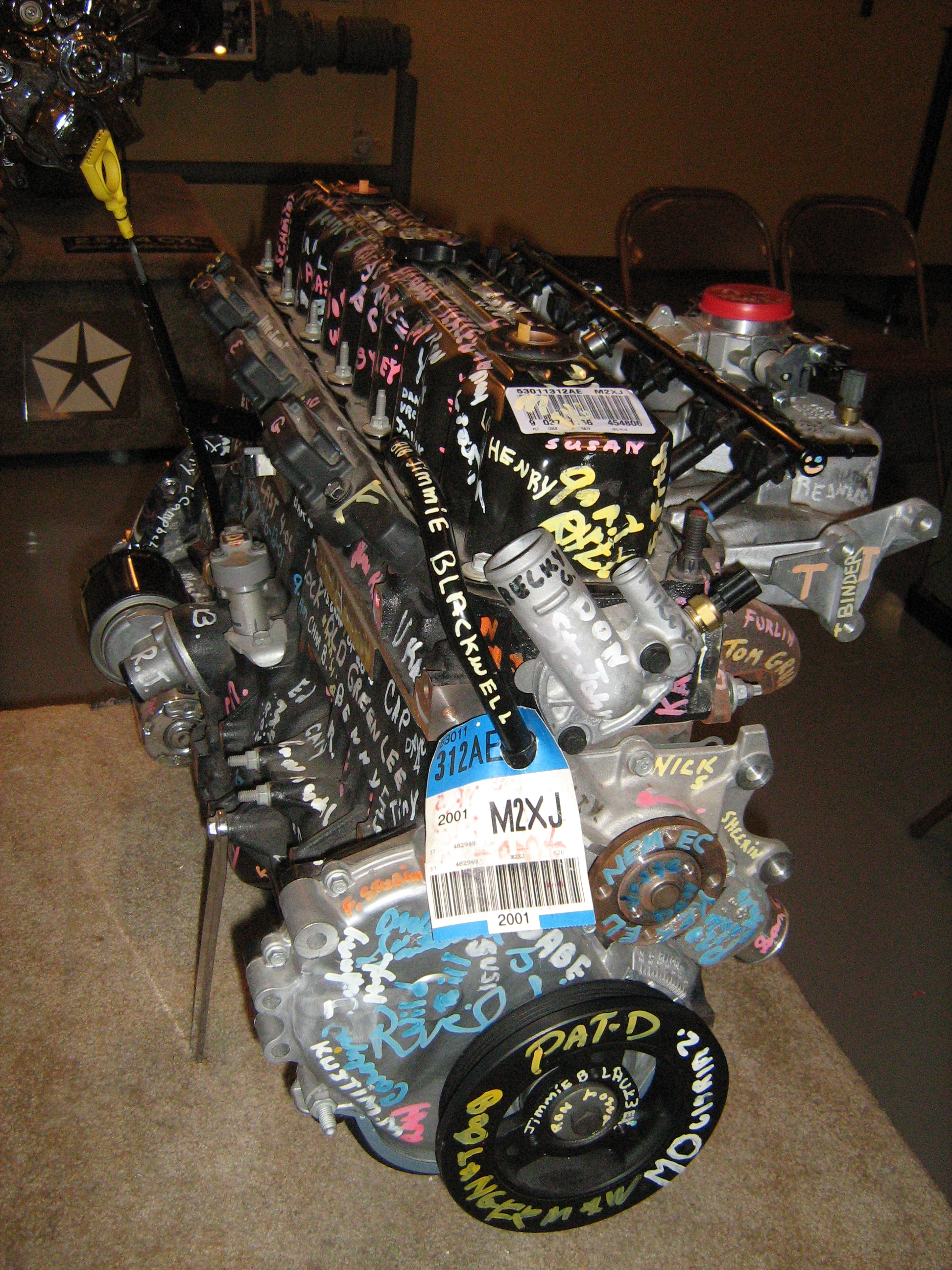 Jeep 4.0 L engine. The 5 millionth produced in Kenosha, Wisconsin, and signed by the workers. Originally designed by American Motors Corporation (AMC) in conjunction with Renault. These engines were later produced and refined by Chrysler. This was the last Jeep 4.0 XJ engine produced on the "Greenlee Block Line" and dated 2001-06-15. Picture taken in the Kenosha History Museum